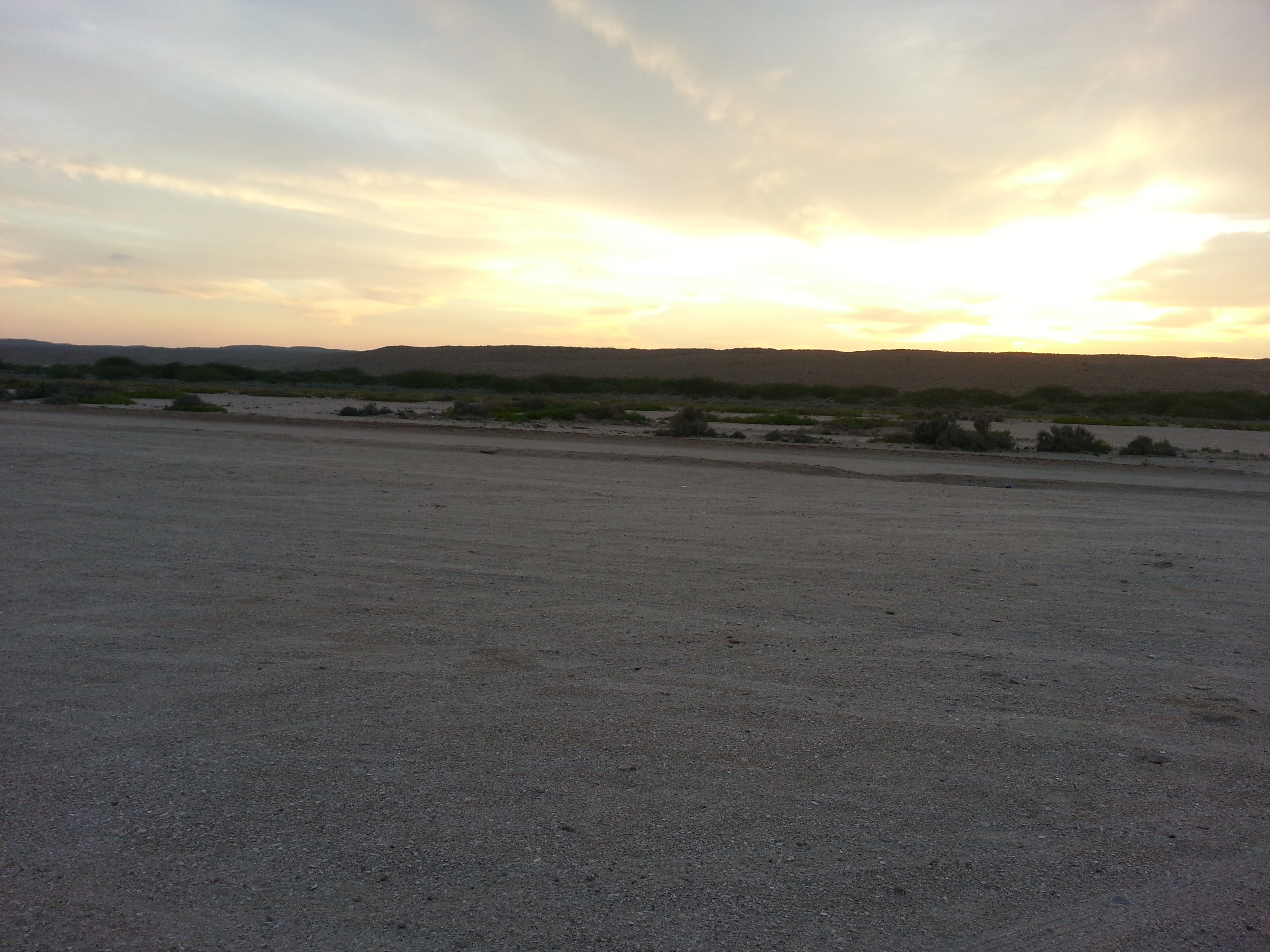 منظر جميل